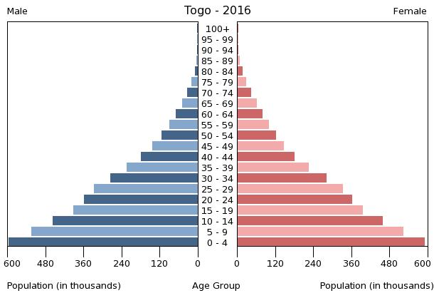 The population pyramid of Togo illustrates the age and sex structure of population and may provide insights about political and social stability, as well as economic development. The population is distributed along the horizontal axis, with males shown on the left and females on the right. The male and female populations are broken down into 5-year age groups represented as horizontal bars along the vertical axis, with the youngest age groups at the bottom and the oldest at the top. The shape of the population pyramid gradually evolves over time based on fertility, mortality, and international migration trends.